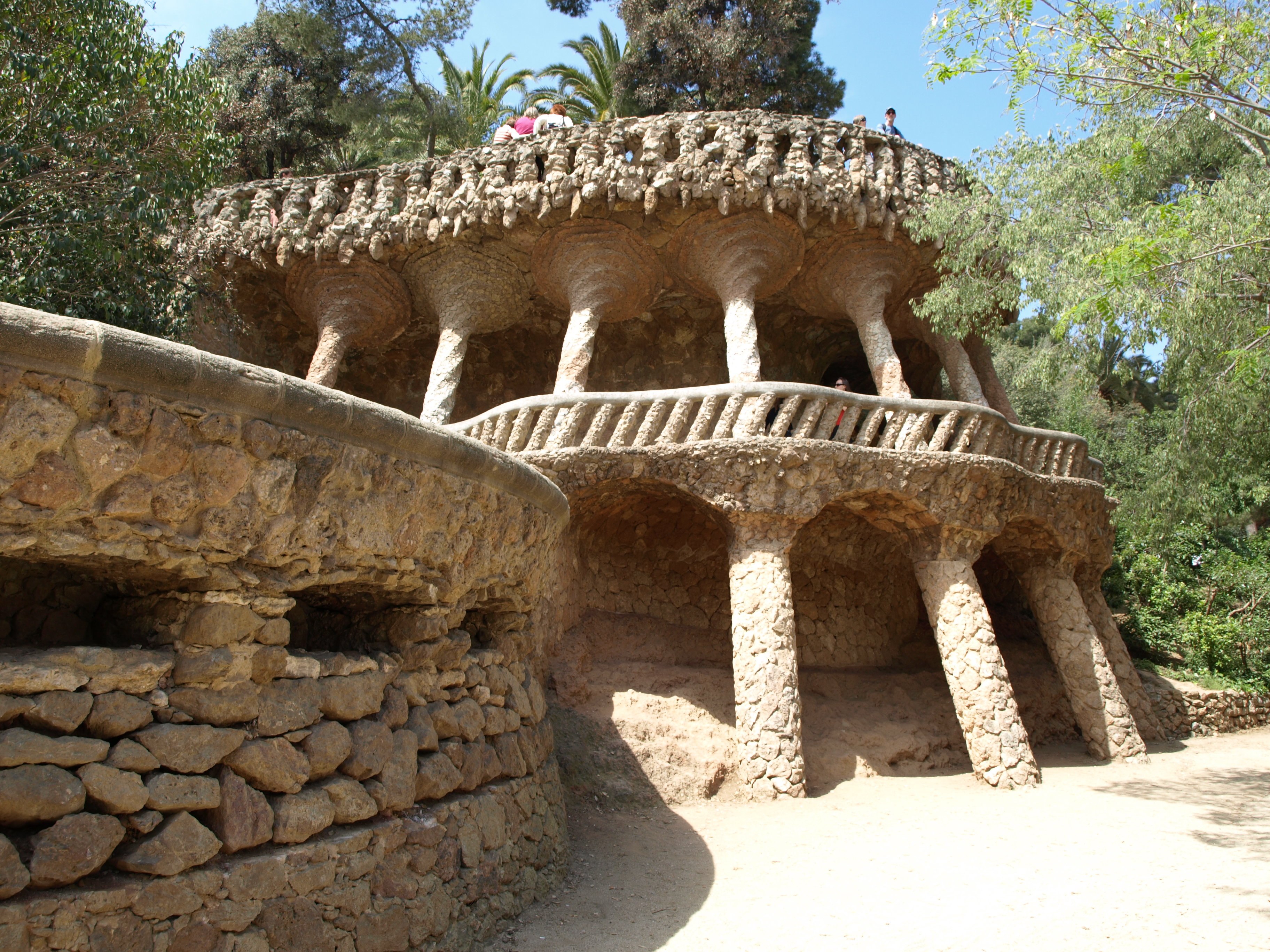 Viaduct in Park Güell